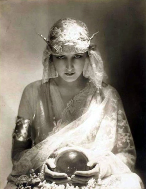 Dolores by Adolf de Meyer. “Pearls and Tulle Spin Bridal Witcheries,” Vogue, April 15, 1919, p. 44. Baron Adolph de Meyer, photographer and designer; Dolores (Kathleen Rose), model.